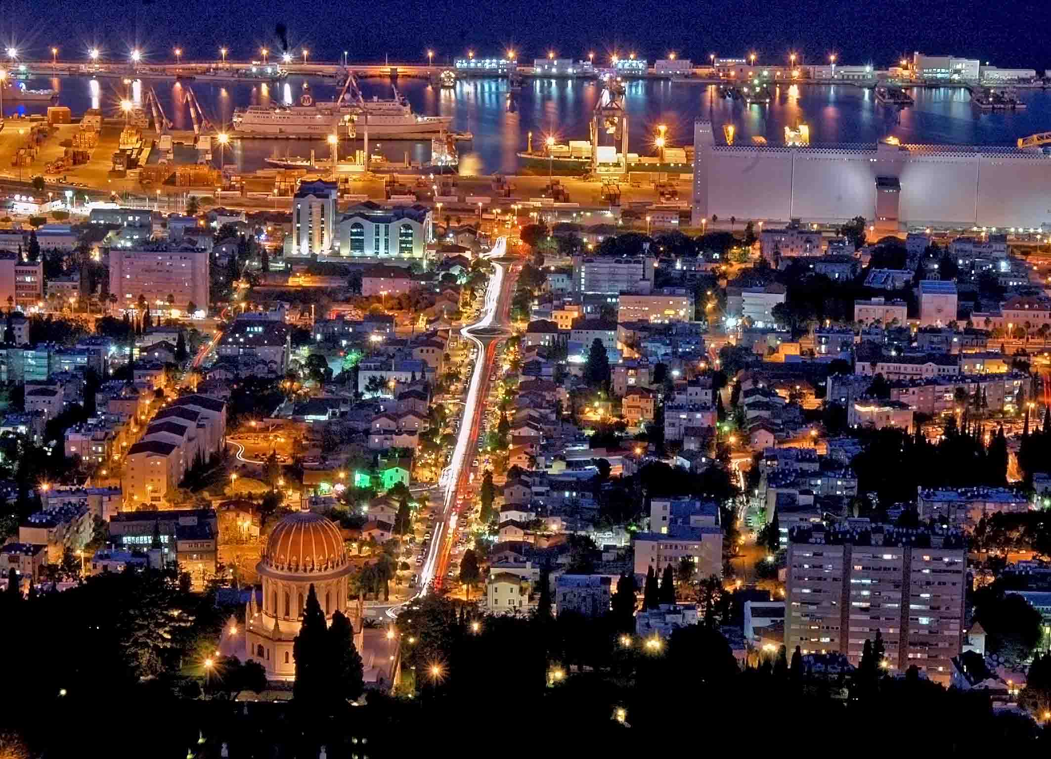 The city of Haifa at night